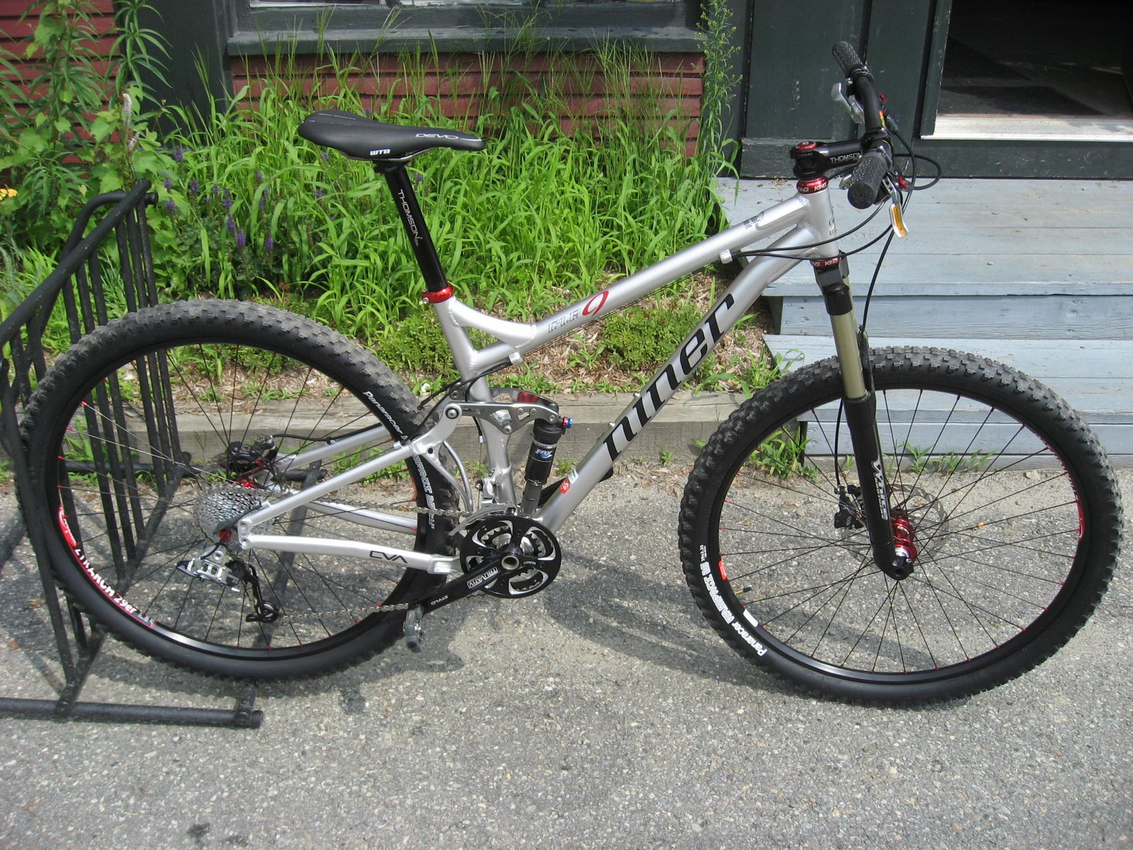 A niner bike